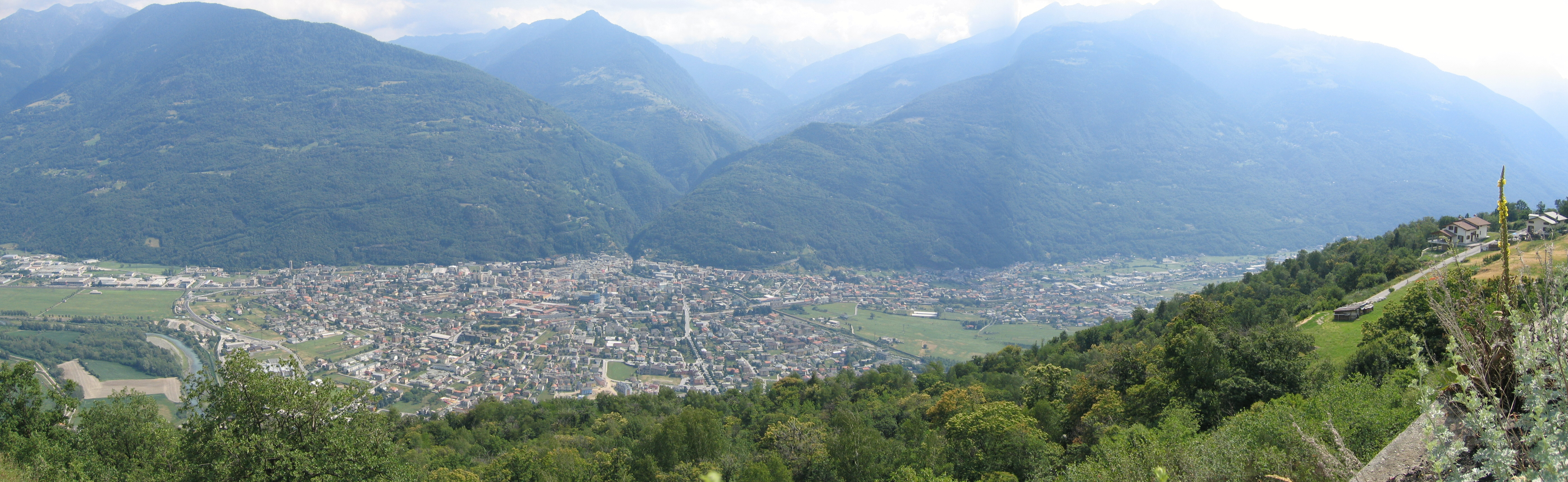 Panorama of Morbegno